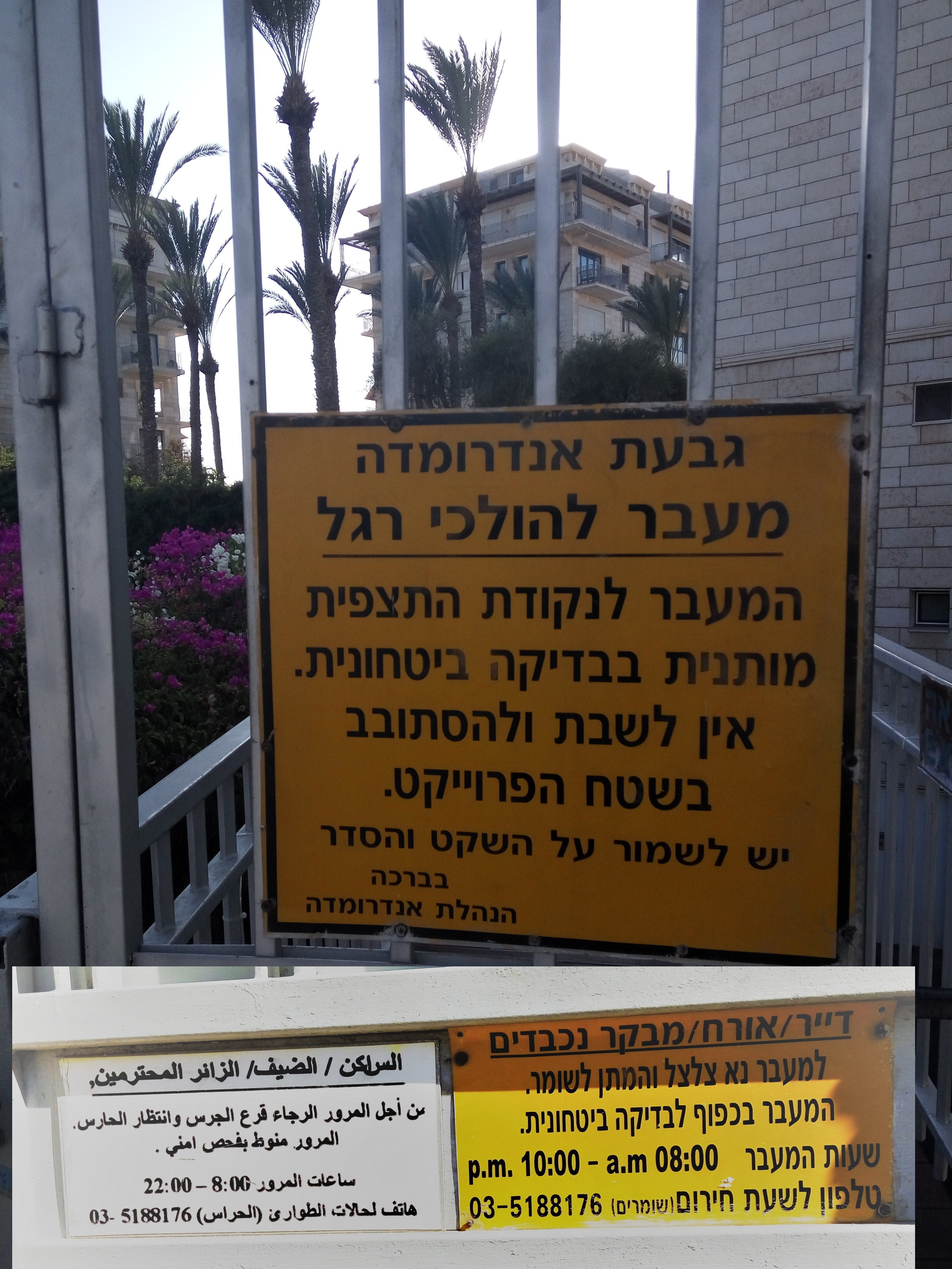 signs on entrence to Andromeda hill